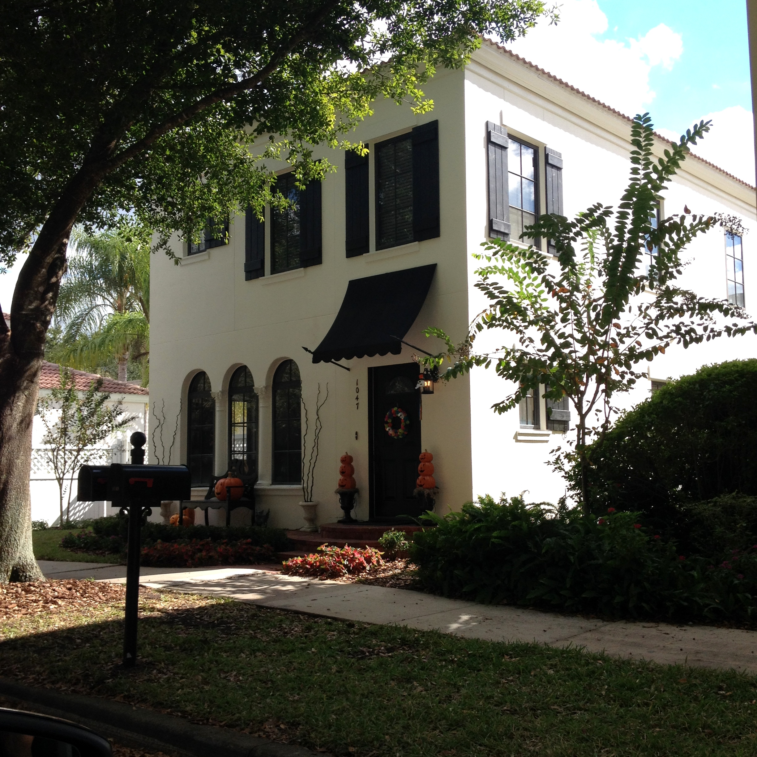 celebration home